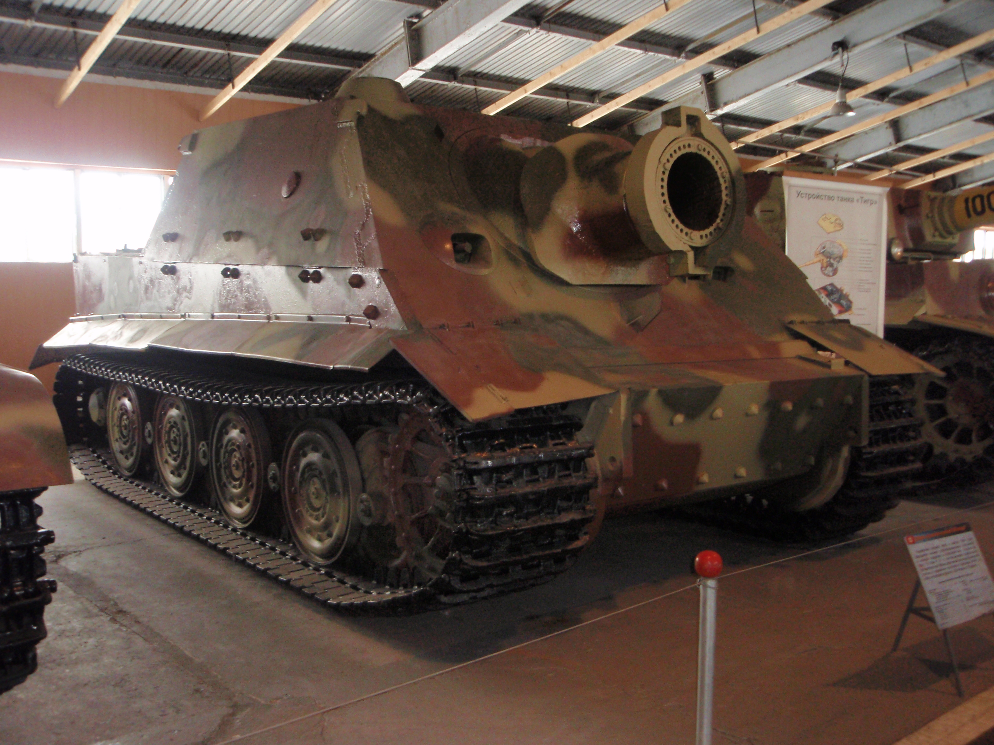 German assault gun Sturmgier in Kubinka